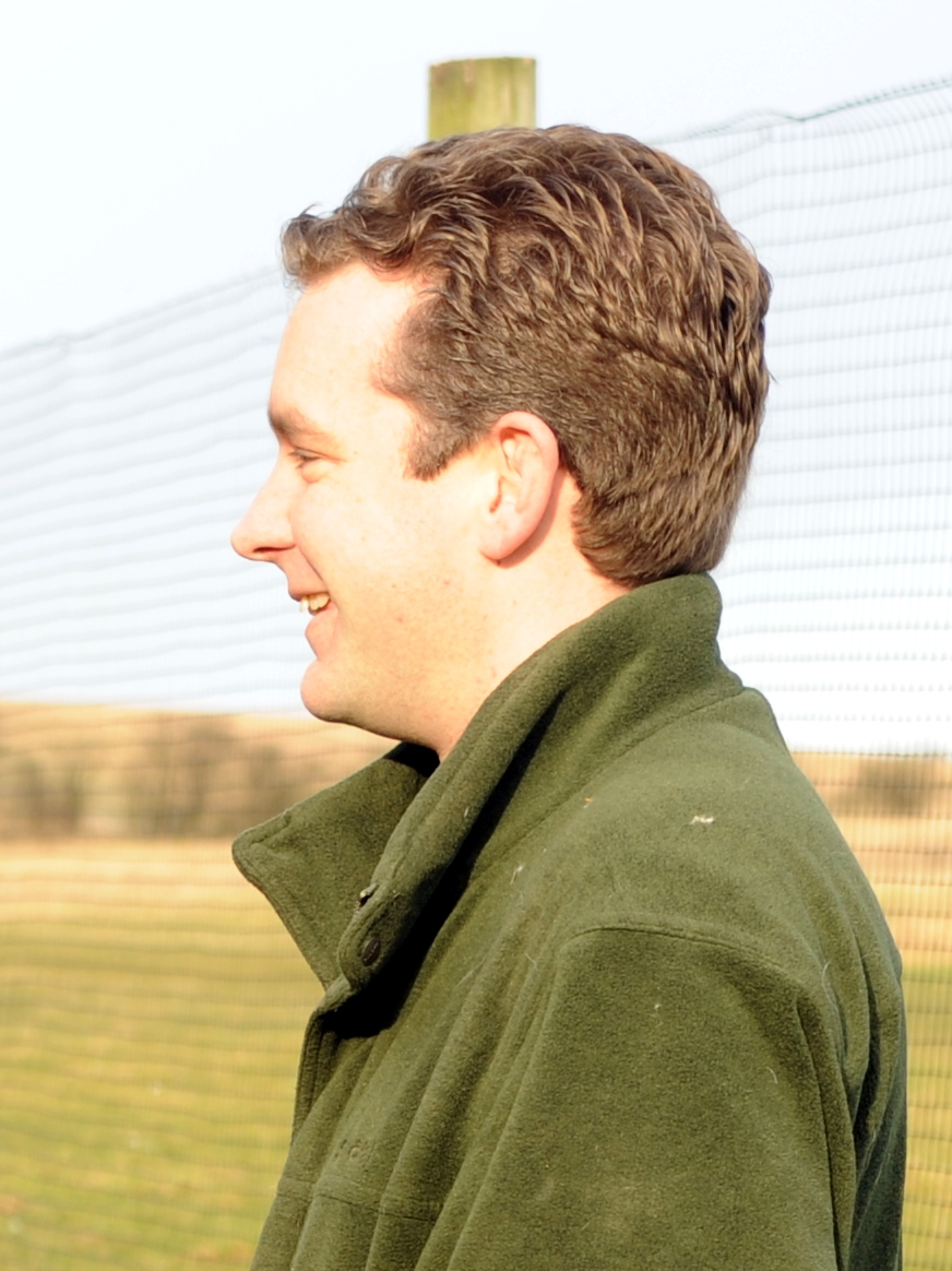 head crop of Richard Faulds from photo of him being interviewed by David Wright. Levels adjusted.